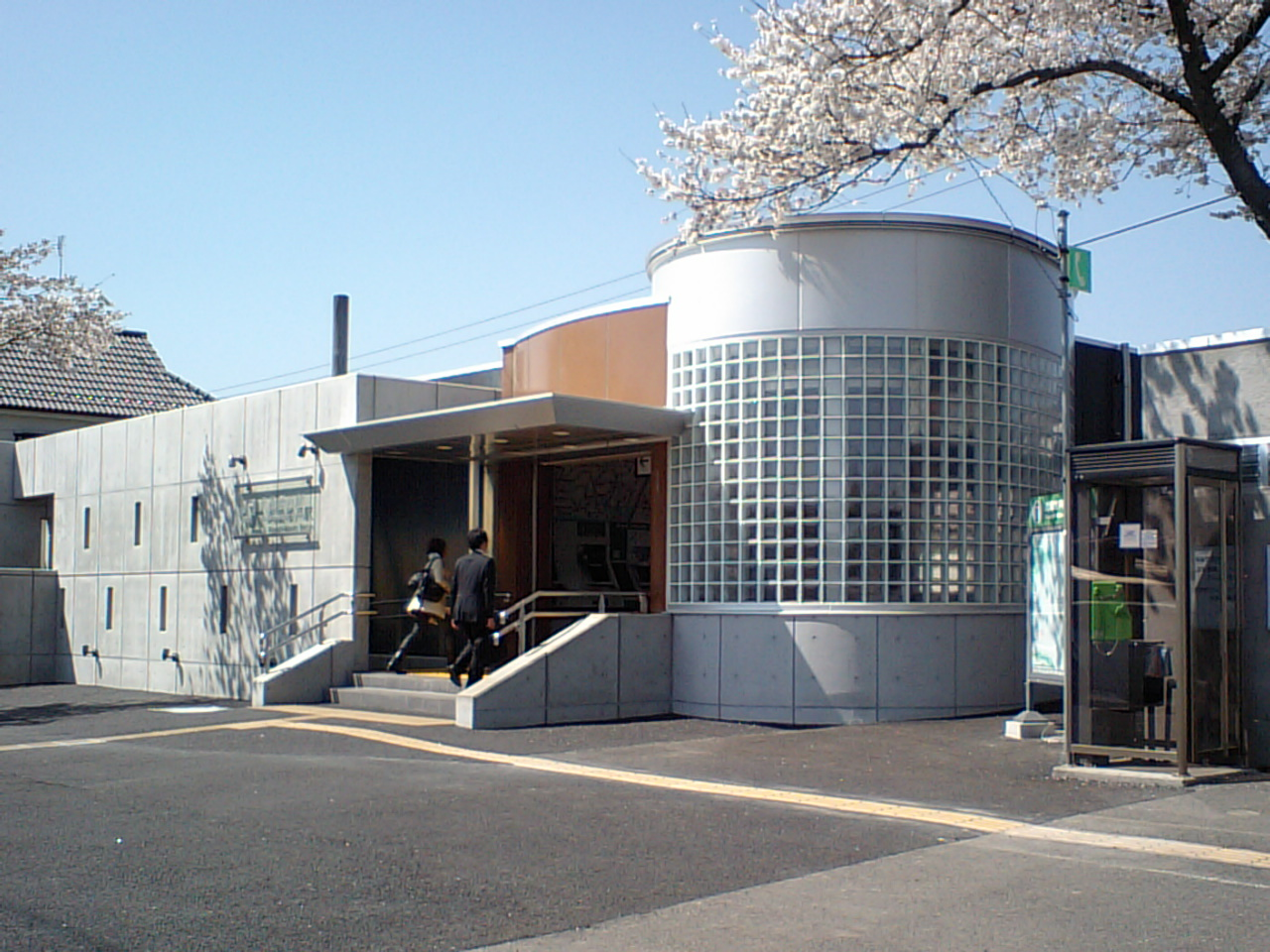 Musashi-Masuko Station in Akiruno, Tokyo, Japan